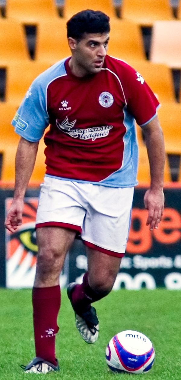 Robert Younis playing for the Sydney Tigers against Sydney Olympic in the NSW Premier League.